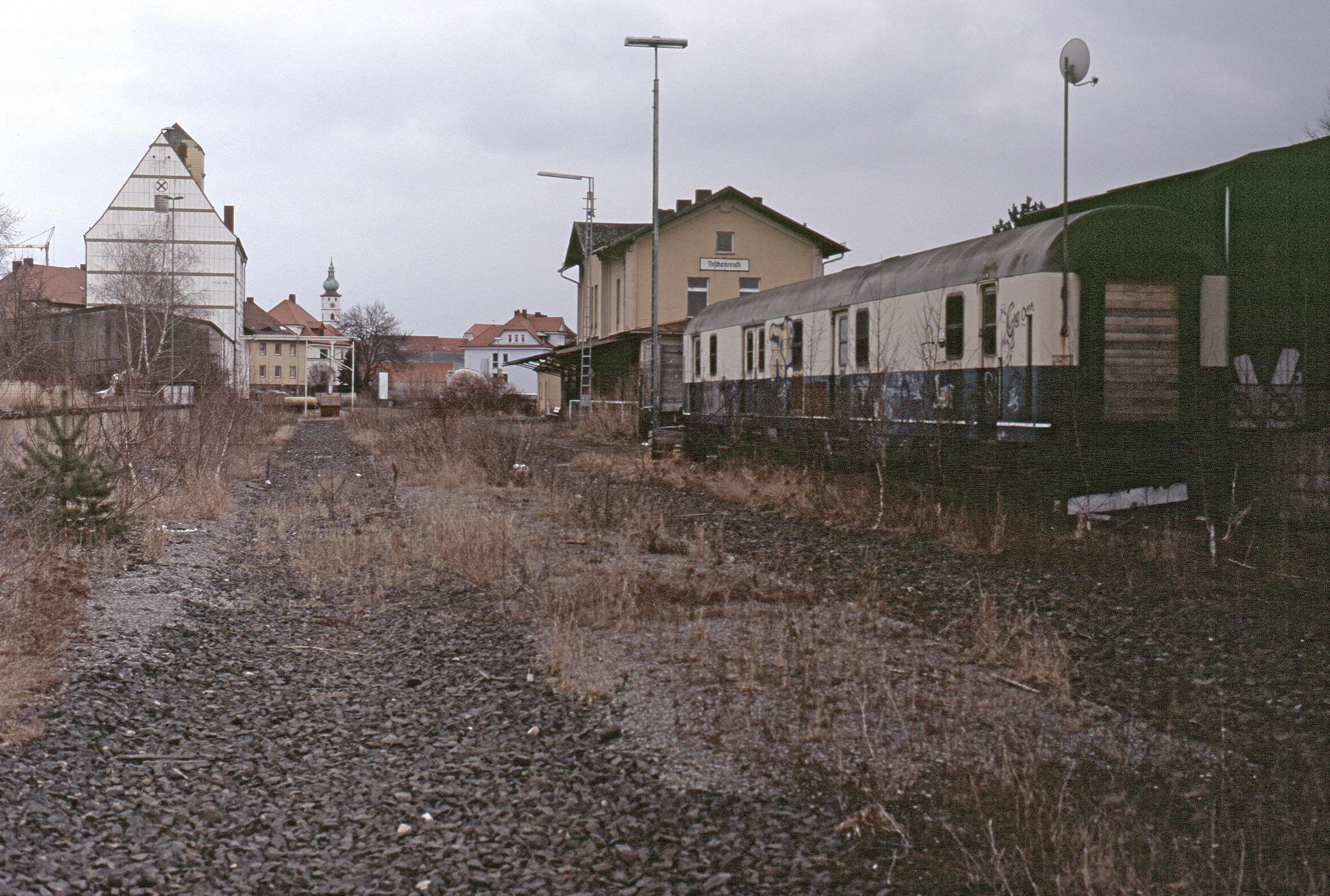 Tirschenreuth railway station